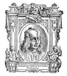 Illustratio from "Le Vite" by Giorgio Vasari, edition of 1568. For the artist portrayed see filename